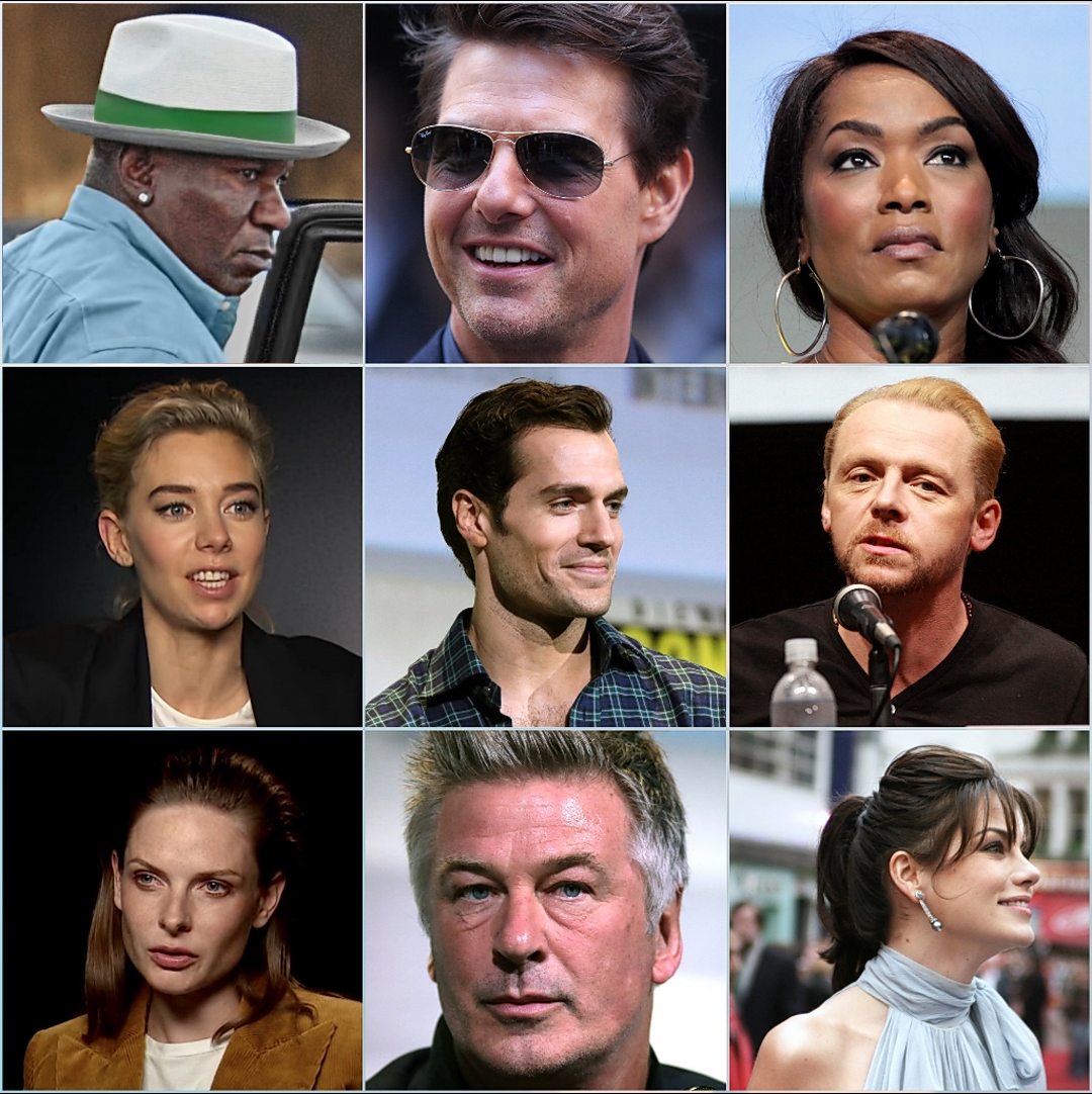 Mission: Impossible – Fallout (2018) Cast members: Tom Cruise, Henry Cavill, Ving Rhames, Simon Pegg, Rebecca Ferguson, Angela Bassett, Vanessa Kirby, Michelle Monaghan and Alec Baldwin